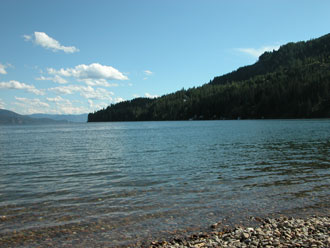 Pend Oreille Lake, Garfield Bay I took it